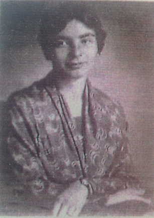 Portrait photograph of Anna Spitzmüller taken in about 1930, perhaps a little earlier.